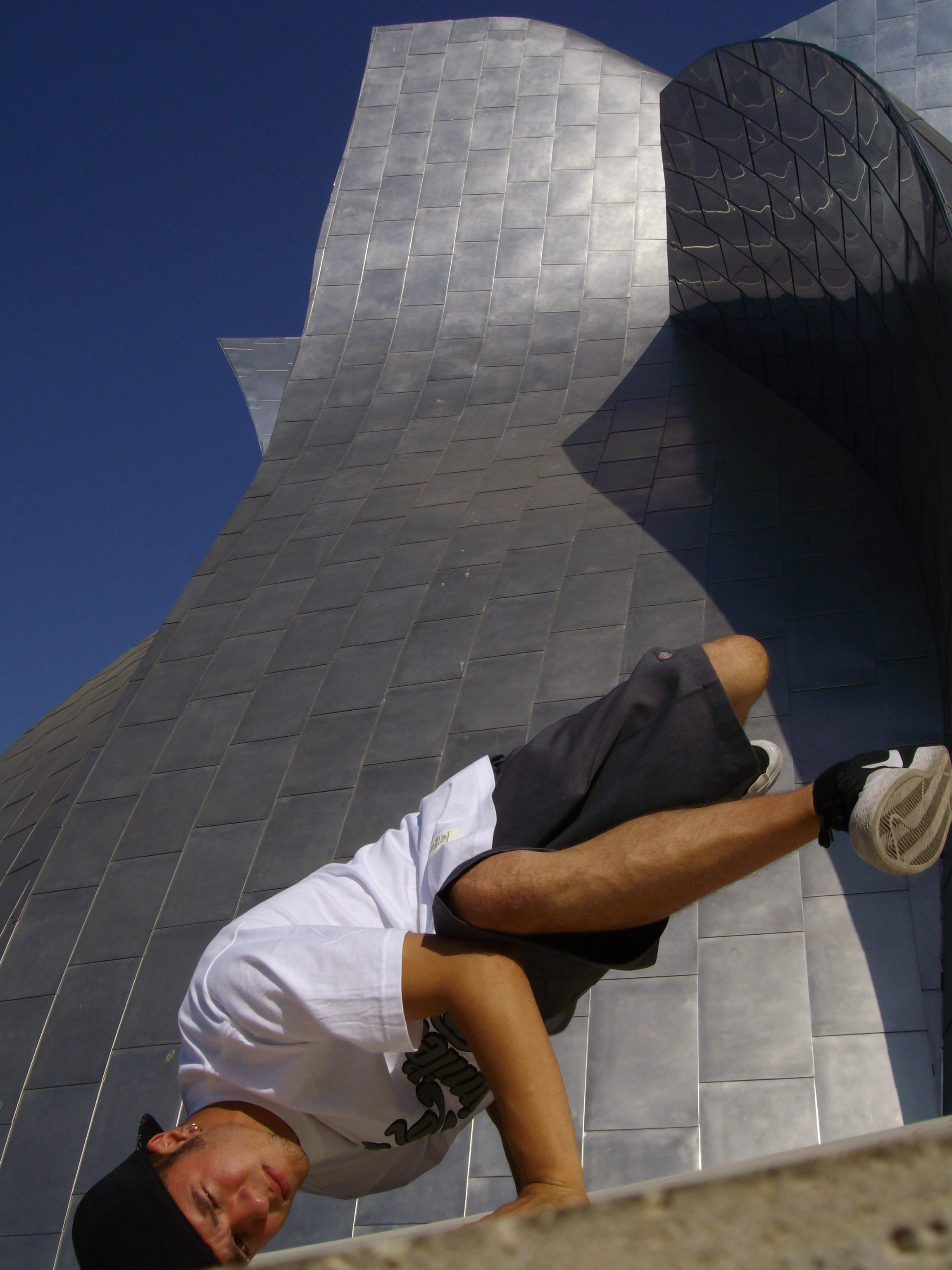 B-boy Timon doing a cross-baby freeze outside the Disney concert hall in Los Angeles (downtown).